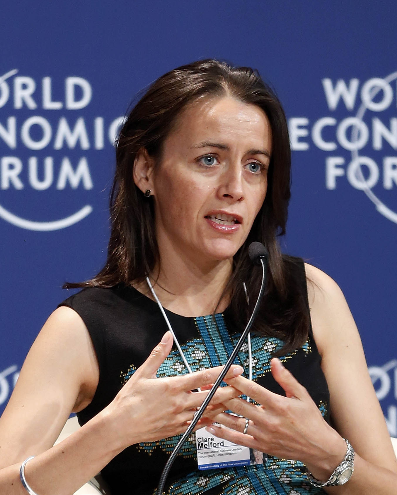 Clare Melford during the "Chinese Globalizers - Connecting through Corporate Citizenship" session at the Annual Meeting of the New Champions in 2012.